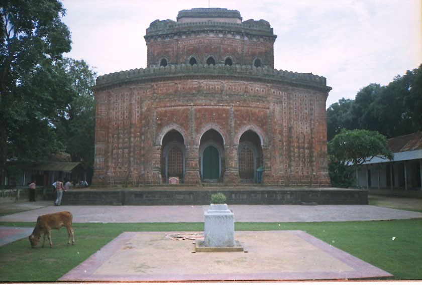 Kantanji's Temple in Dinajpur, Bangladesh. Photograph taken by: Hasan Muhammed Zahidul Amin.